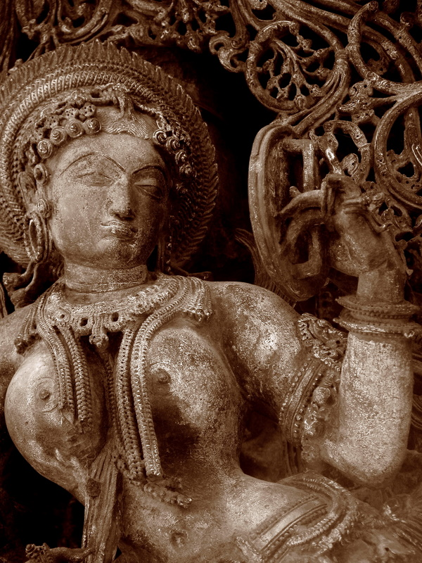 Lady looking into mirror, Belur Halebidu